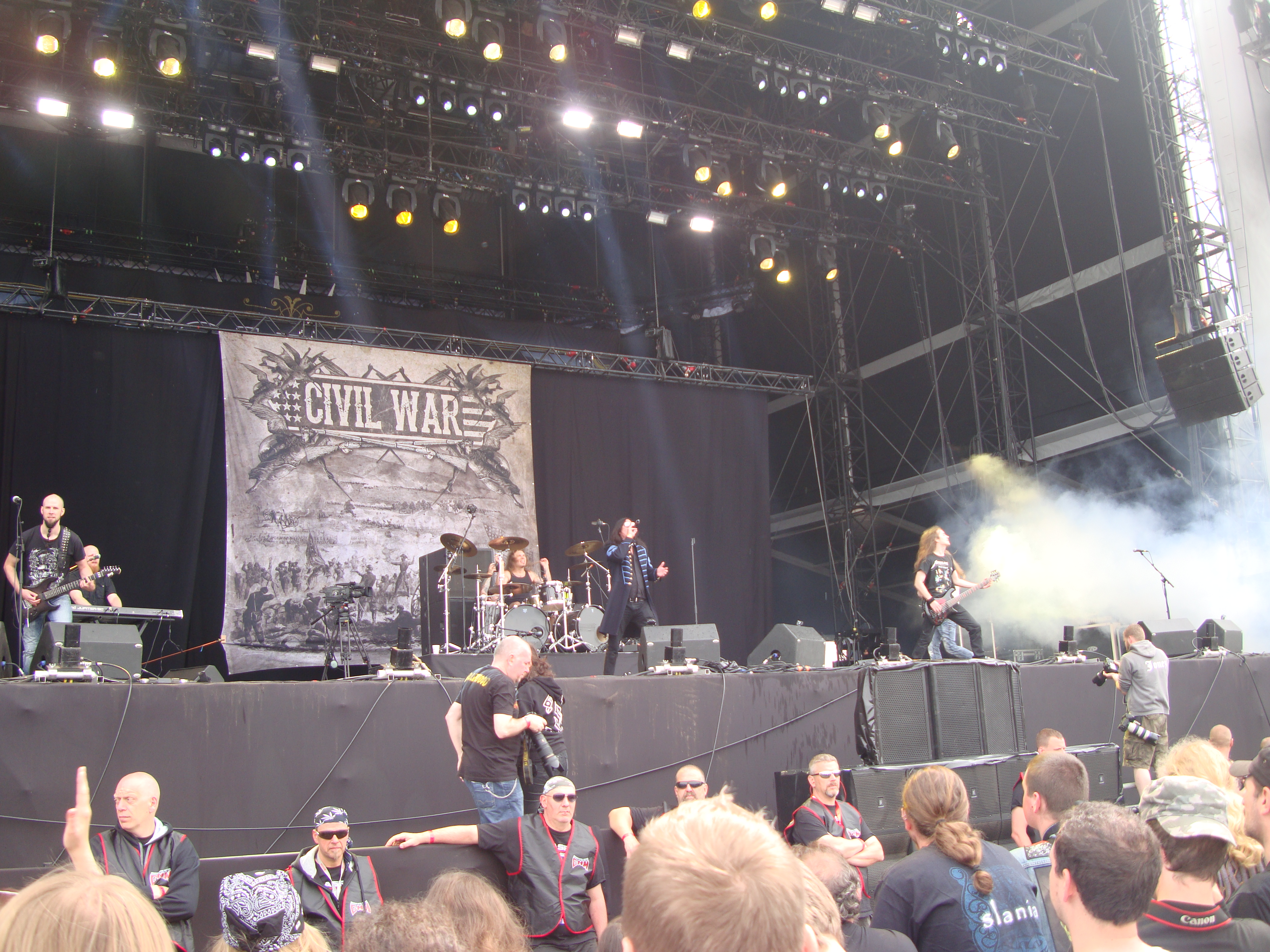 The band Civil War with the lineup of Graspop Metal Meeting 2014. Excluding guitarist Stefan "Pizza" Eriksson, not able to be at gig, he was expecting a child.